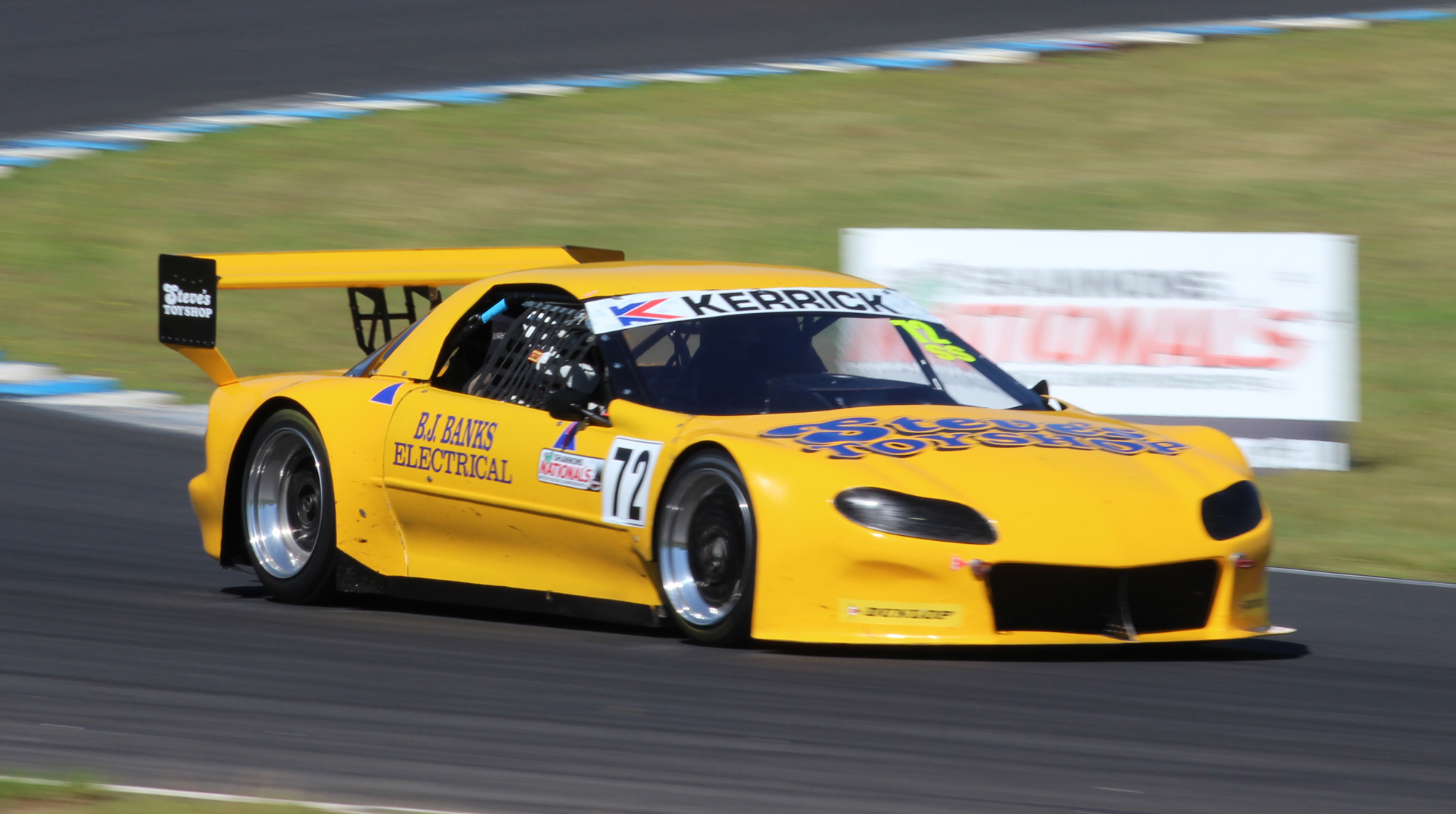 2013 Kerrick Sports Sedan Series winner Bruce Banks at Sydney Motorsport Park.